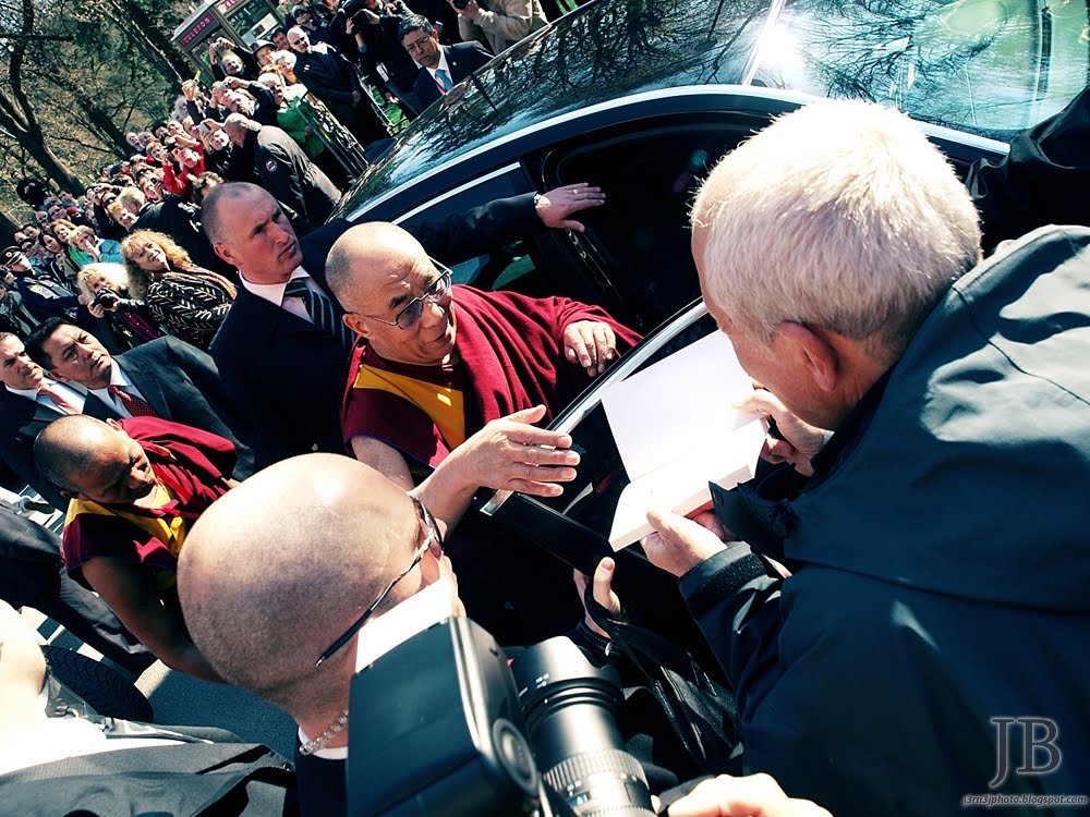 Dalai Lama in Maribor 2010